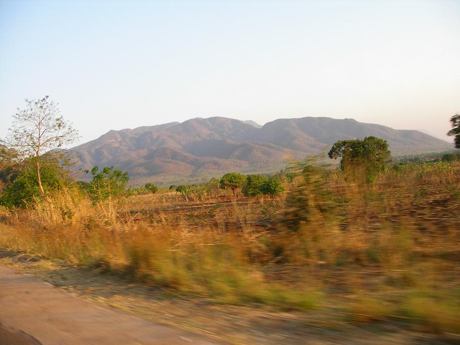 view of Zomba Plateau, which is northwest of the town of Zomba, Malawi, from the north (while on the M3 highway en route to Liwonde).